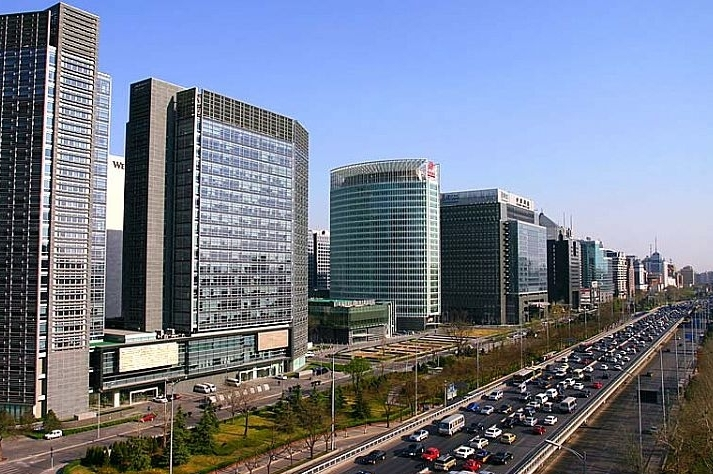 Beijing Financial Street - overall